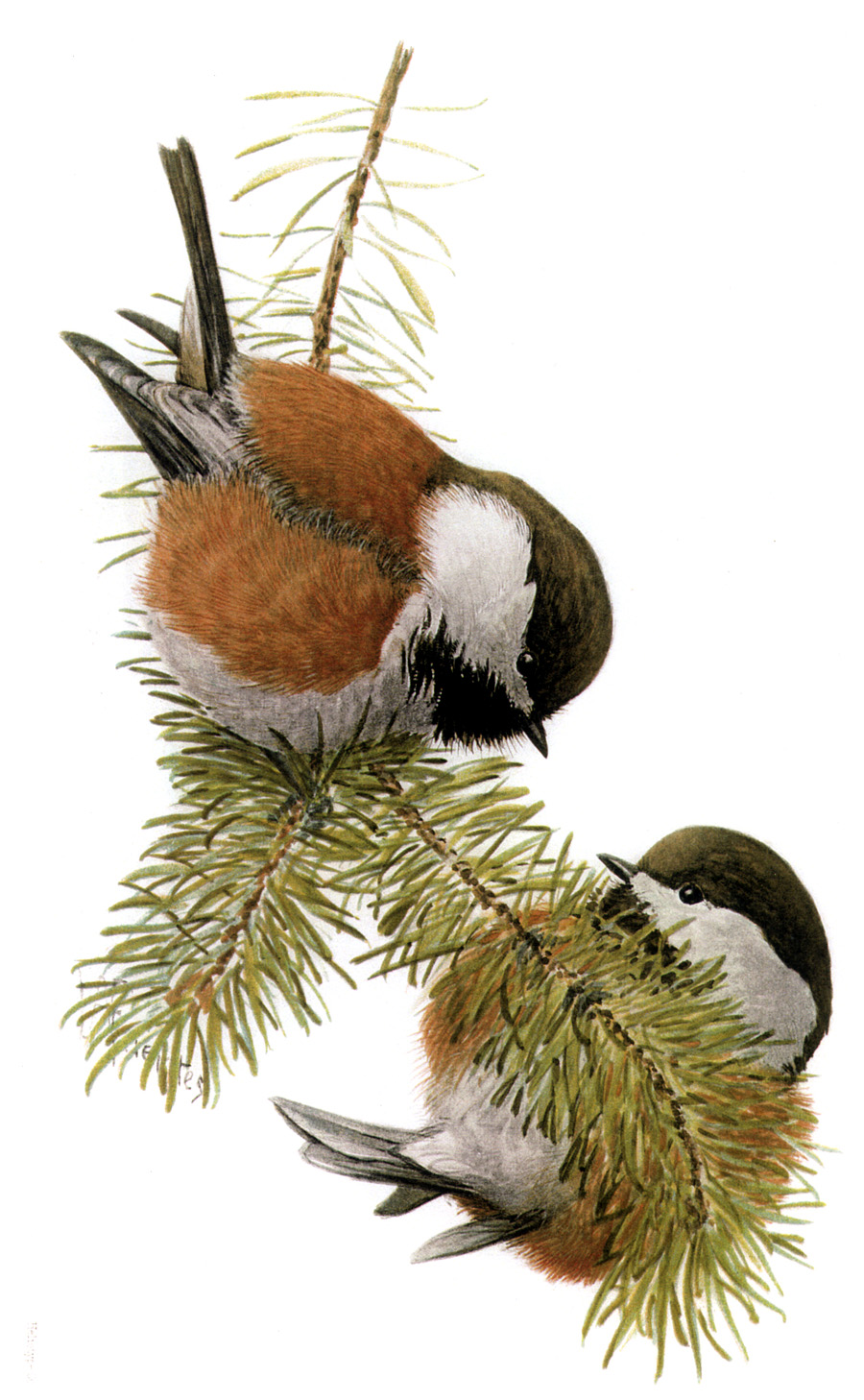 Chestnut-backed Chickadee, Parus rufescens, chromolithograph after painting (watercolor)